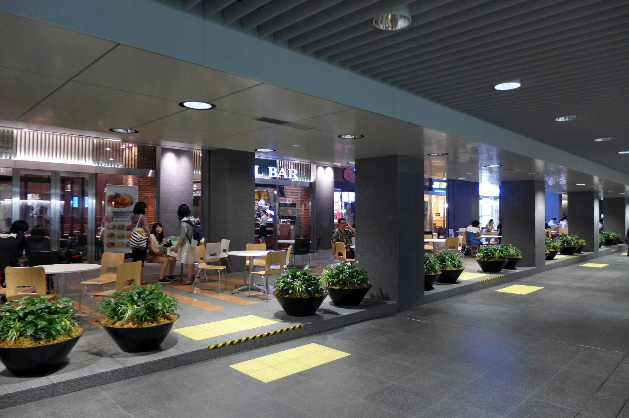 Sapporo Underground Pedestrian Space Station Road